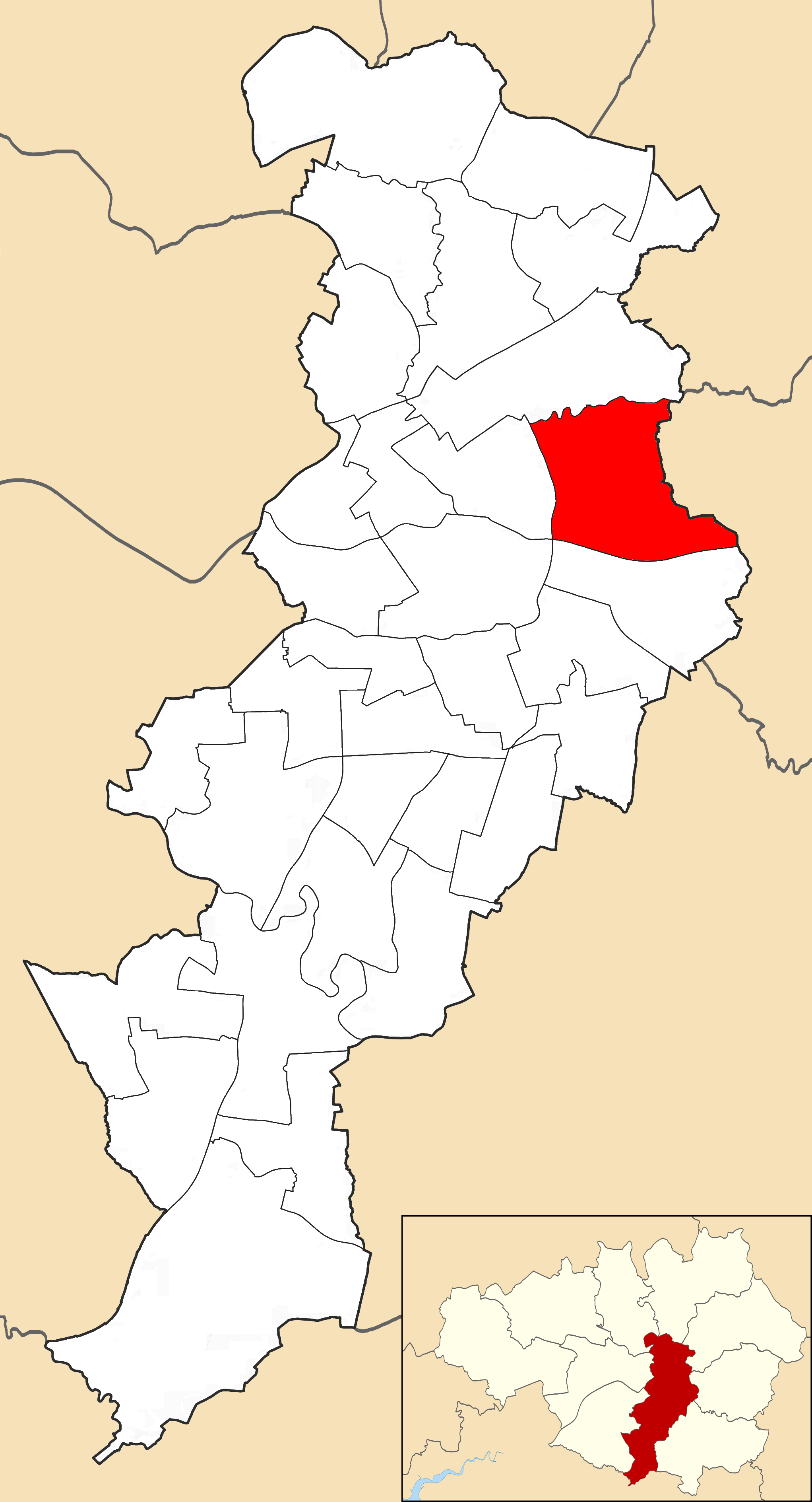 Map showing location of Clayton and Openshaw ward within Manchester City Council.